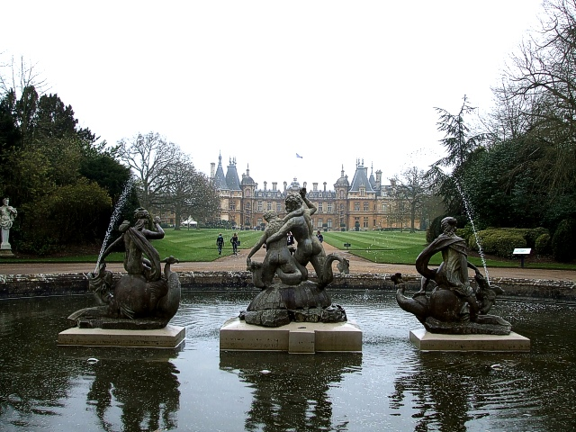 The Fountain, Waddesdon Manor This rather splendid triple fountain and pool forms the centre of a roundabout at the northwestern end of the main drive to the front of Waddesdon Manor, which can be seen behind it. The ludicrously precise (10 digit) grid refs assume that OS maps are accurate !